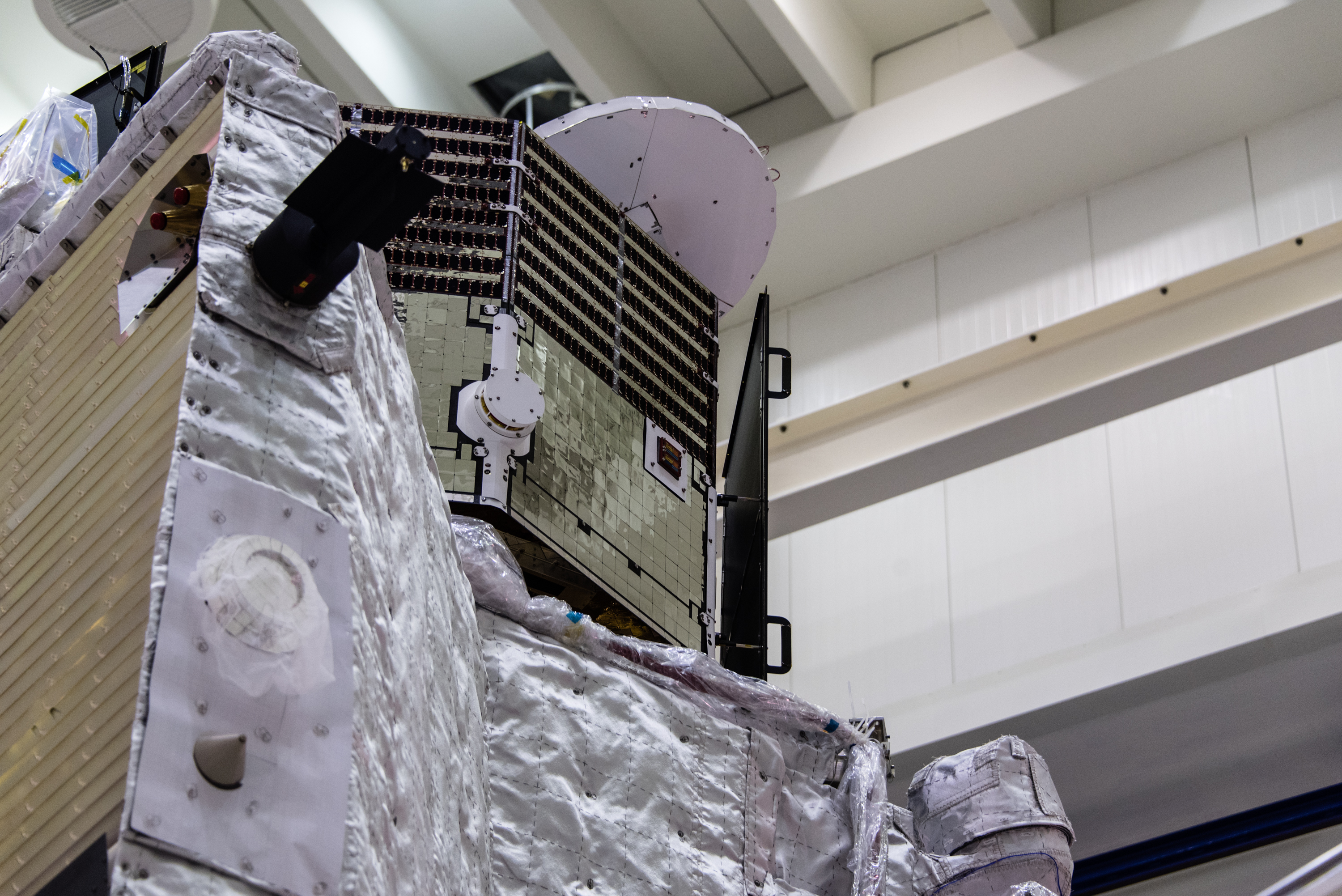 A portion of JAXA’s Mercury Magnetospheric Orbiter (MMO) can be seen on top of ESA’s Mercury Planetary Orbiter (MPO) in this view of the BepiColombo spacecraft at ESA’s technical centre in May 2017. One and a half of the MMO’s eight solar panels can be seen, with part of the high-gain antenna (the white dish) at the top. The MPO is seen with the radiator to the far left; on the side facing the camera the black protrusion is the low-gain antenna. Underneath are two science instruments from the SERENA instrument package. The white circular instrument is SERENA-PICAM, an ion mass spectrometer acting as an all-sky camera for charged particles transported through Mercury’s environment. The cone-shaped instrument below is SERENA-MIPA, an ion analyser looking at how solar wind and magnetospheric ions precipitate towards the surface.